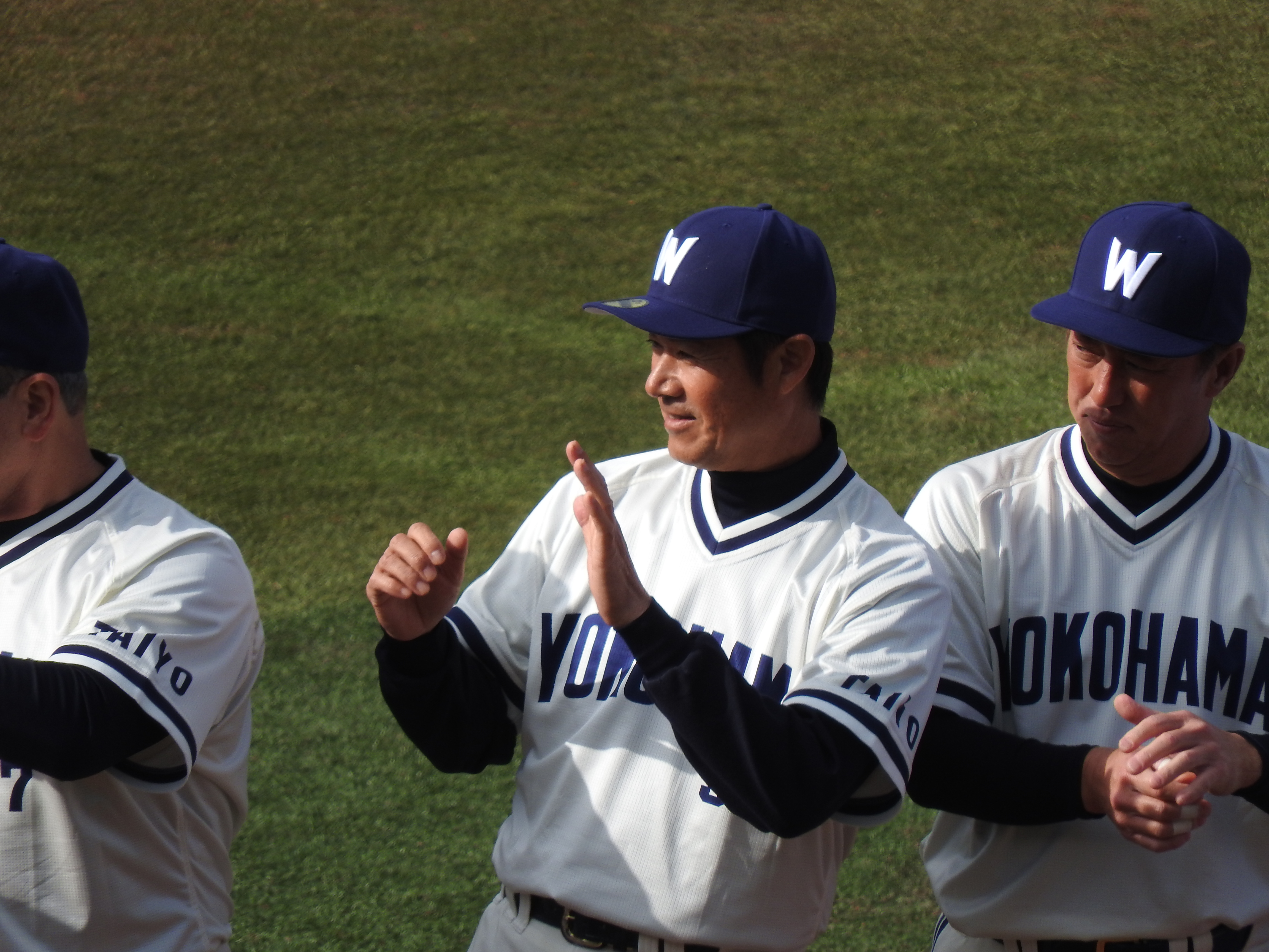 baseball player